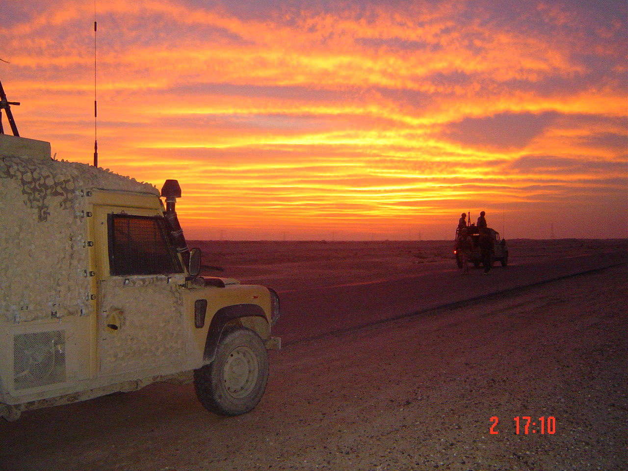 A land rover snatch of B Sqn RDG deployed on Op TELIC 5